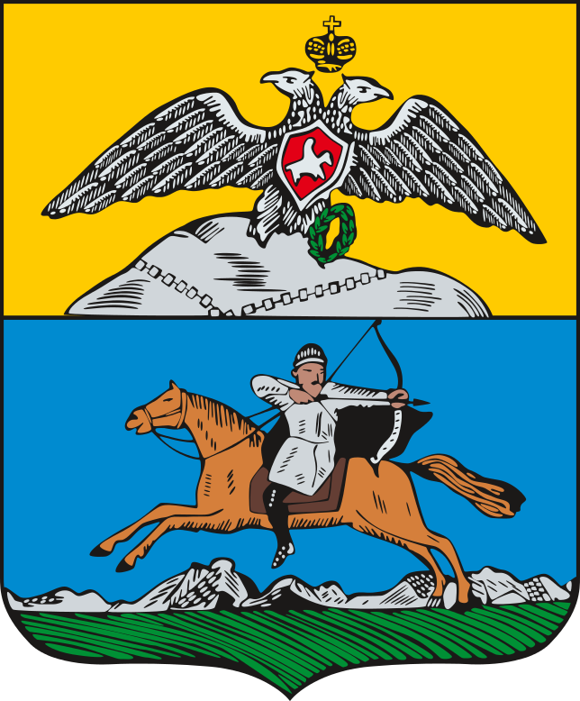 Coat of arms of Caucasus Oblast, Russian Empire